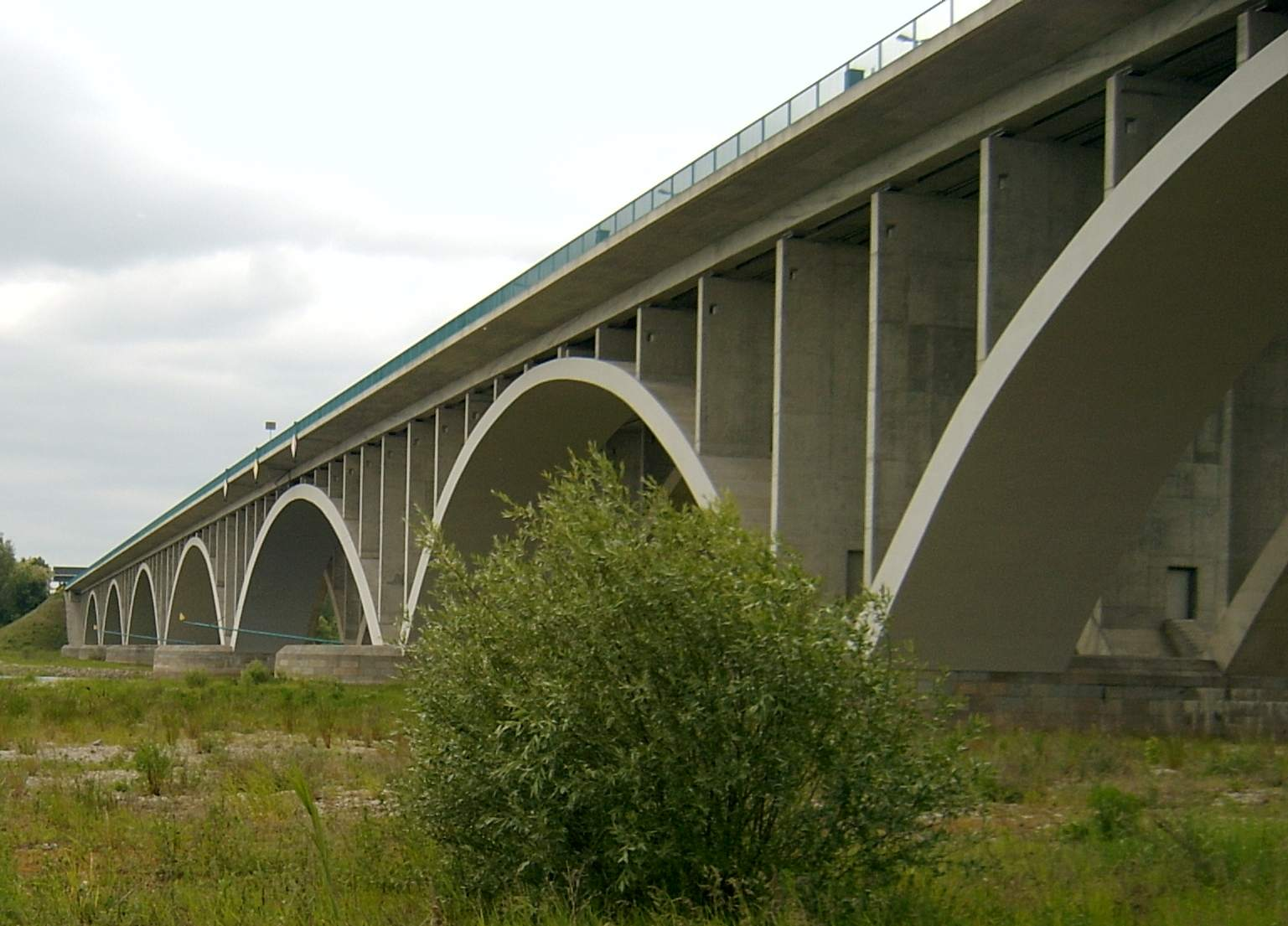 The Oder River bridge (556 m/608 yd) between the Polish A2 and the German A 12 at the border crossing Frankfurt (Oder)–Świecko.